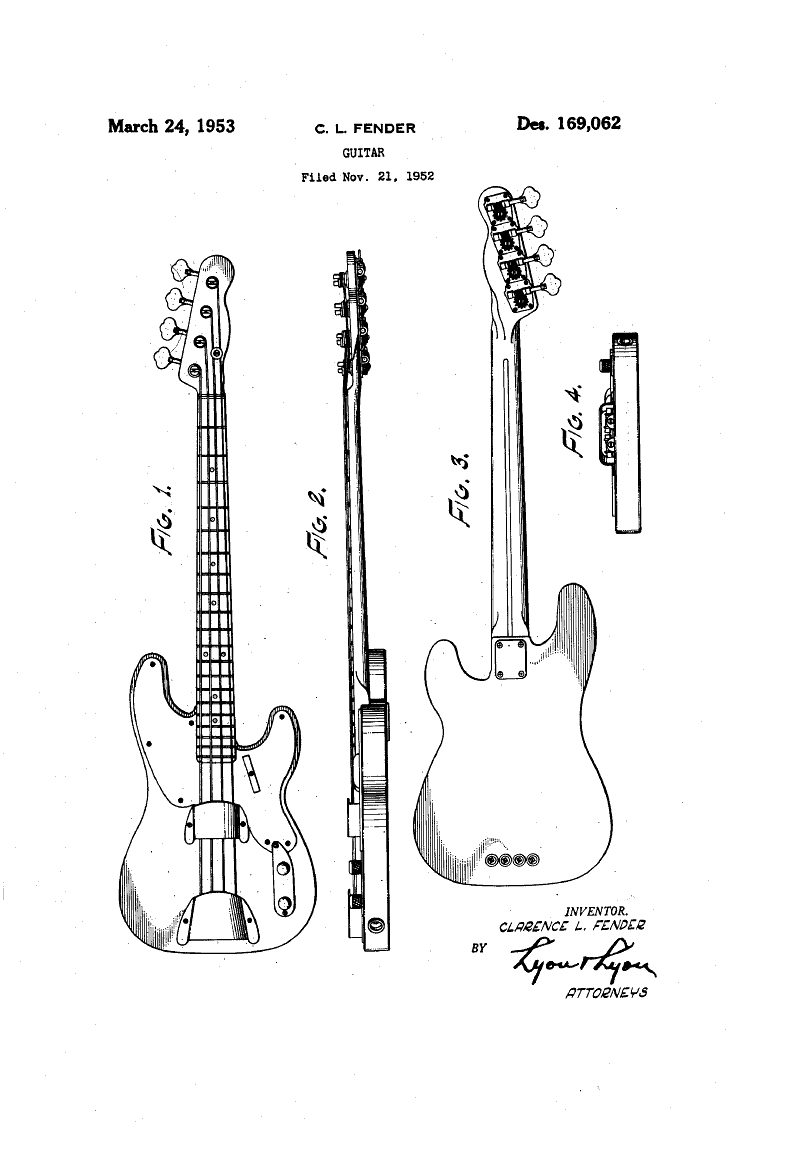 A Patent sketch (D169,062) for the original Fender Precision Bass in 1951-56 (now known as Telecaster Bass)